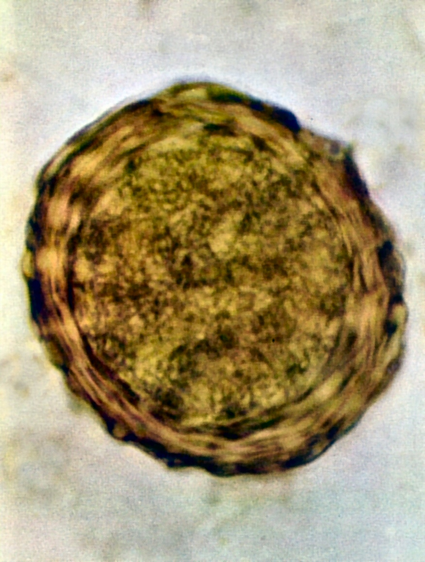 An egg of Ascaris lumbricoides in human feces. The magnification is at about 400x and the specimen has not been stained.